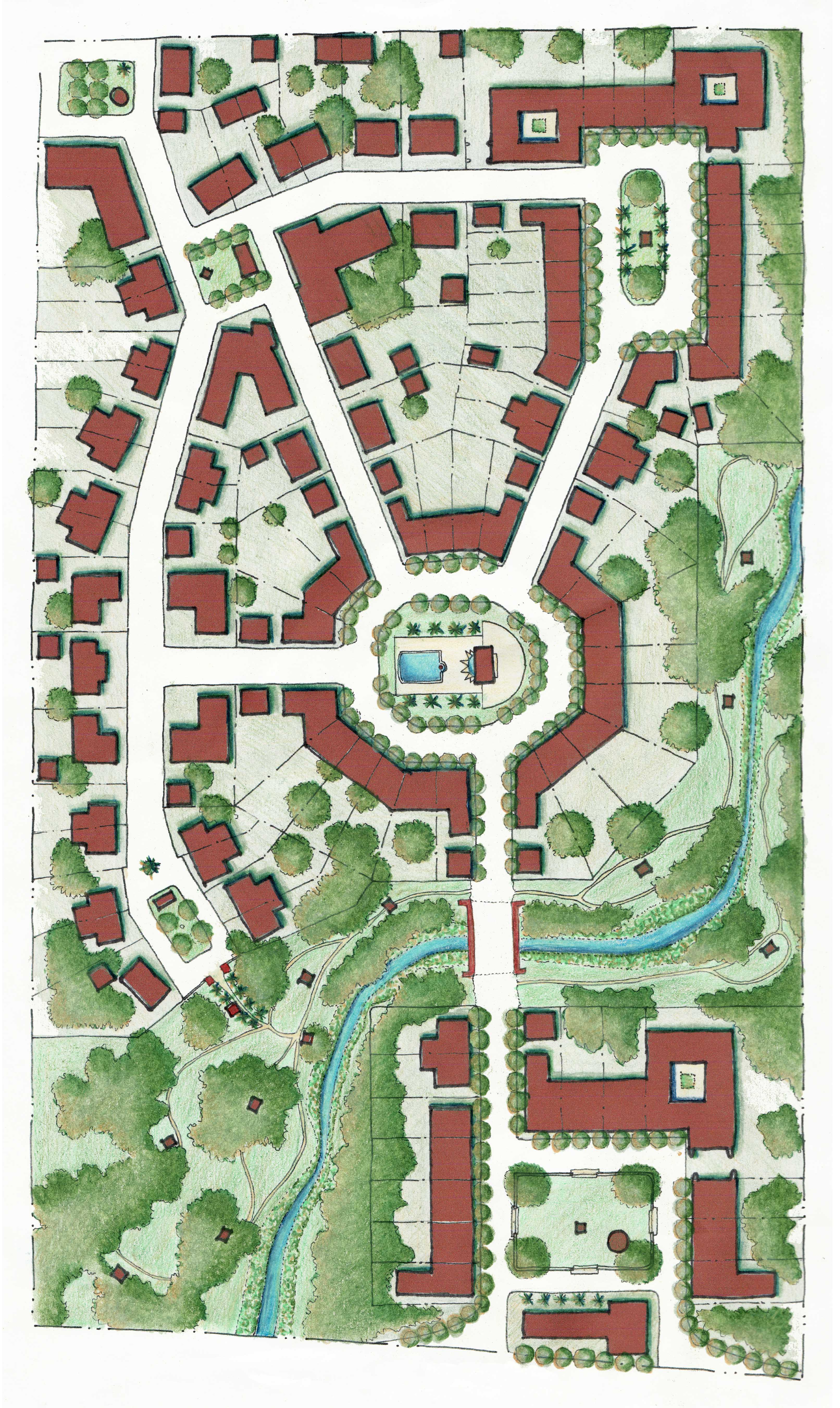 Bonita Springs, Florida